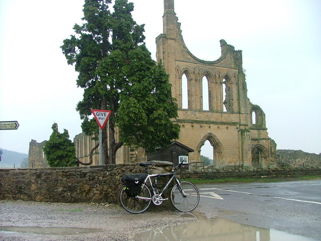 Byland Abbey Byland Abbey ruin - one branch of National Cycle Network route 65 (Middlesbrough to York) passes by.